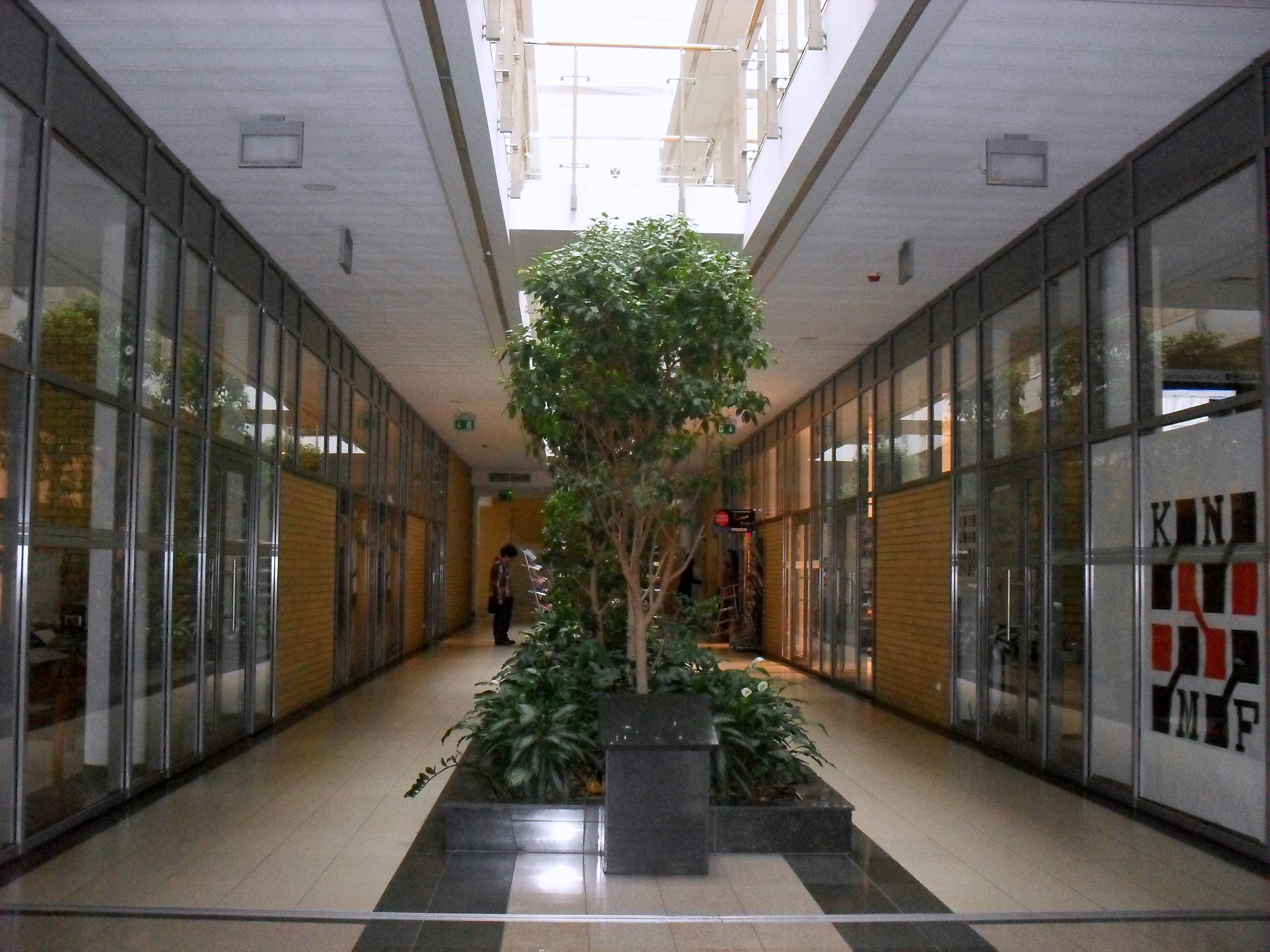 Faculty of Mathematics and Computer Science of the Jagiellonian University inside